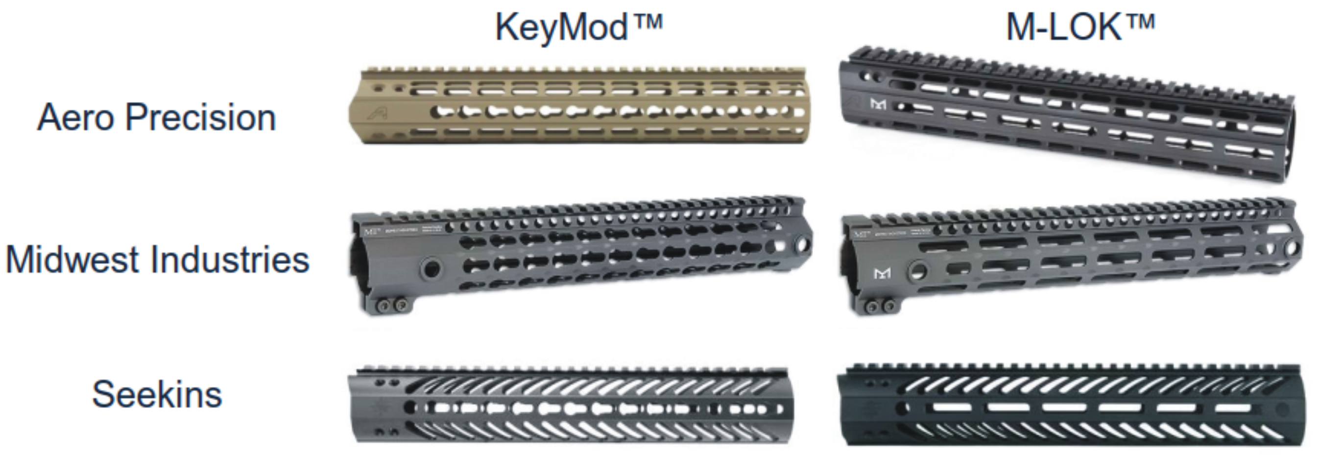 KeyMod and M-LOK handguard variants from various manufacturers. The tops of these handguards feature MIL-STD-1913 Picatinny rails. These handguards were used in a KeyMod™ vs. M-LOK™ Modular Rail System comparison by the US Naval Special Warfare Center Crane Division.